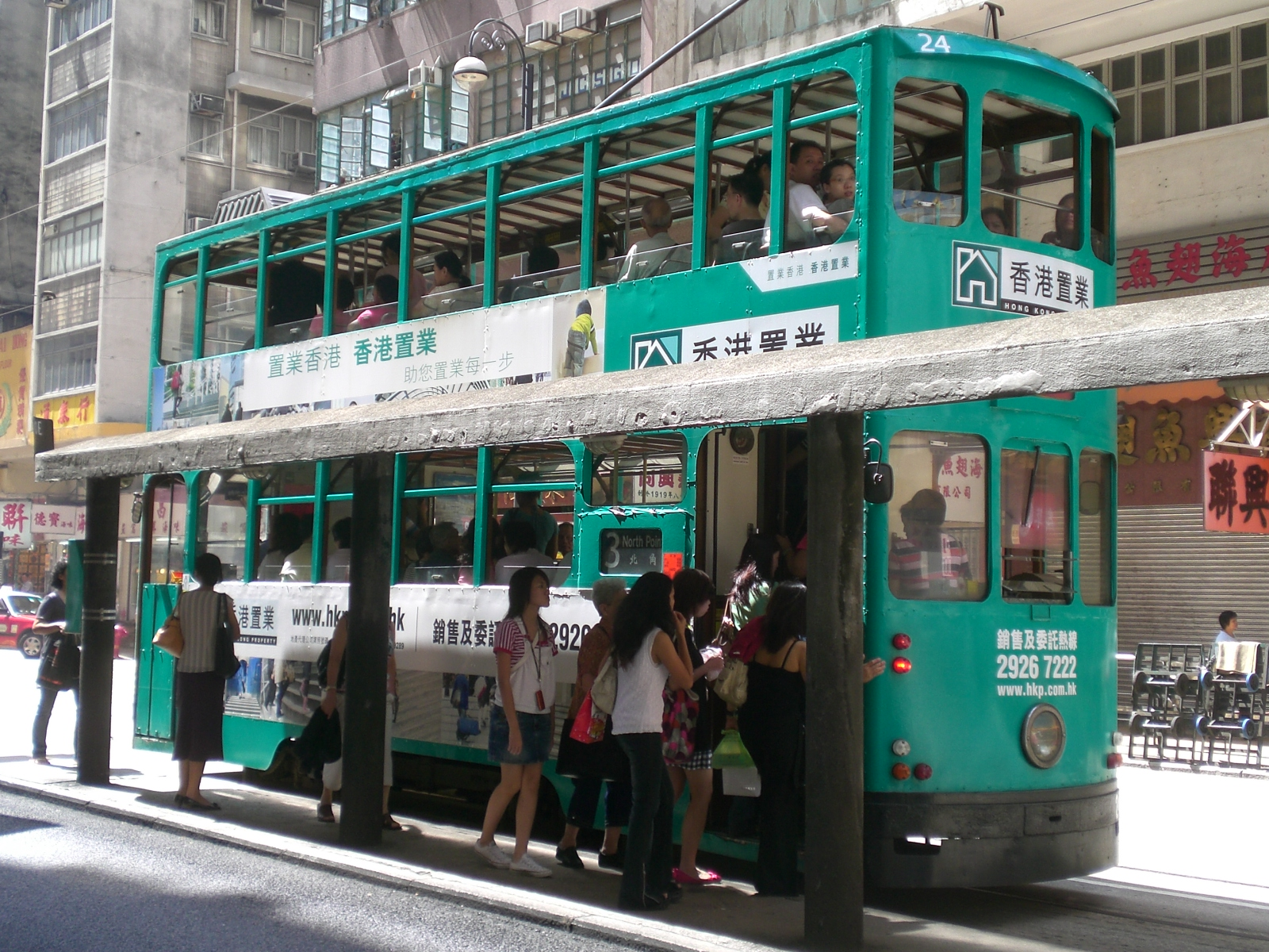 Double-deck tram in Hong Kong